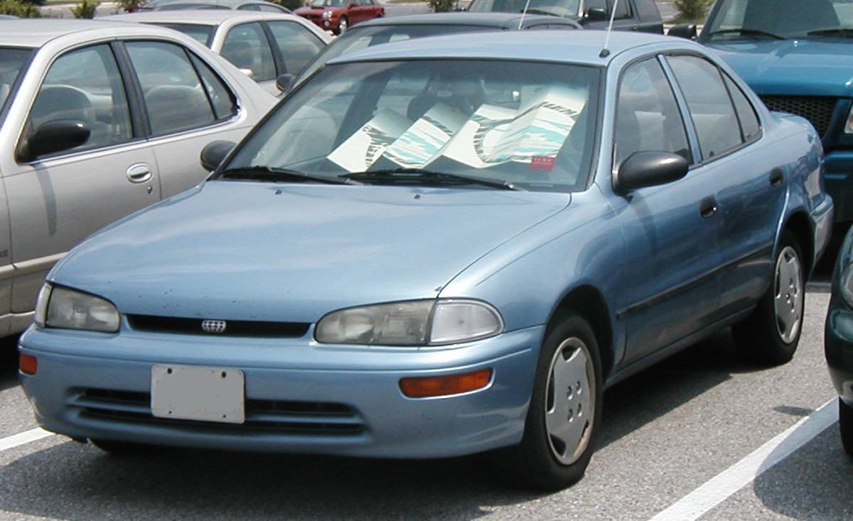 1993-1997 Geo Prizm photographed in USA.